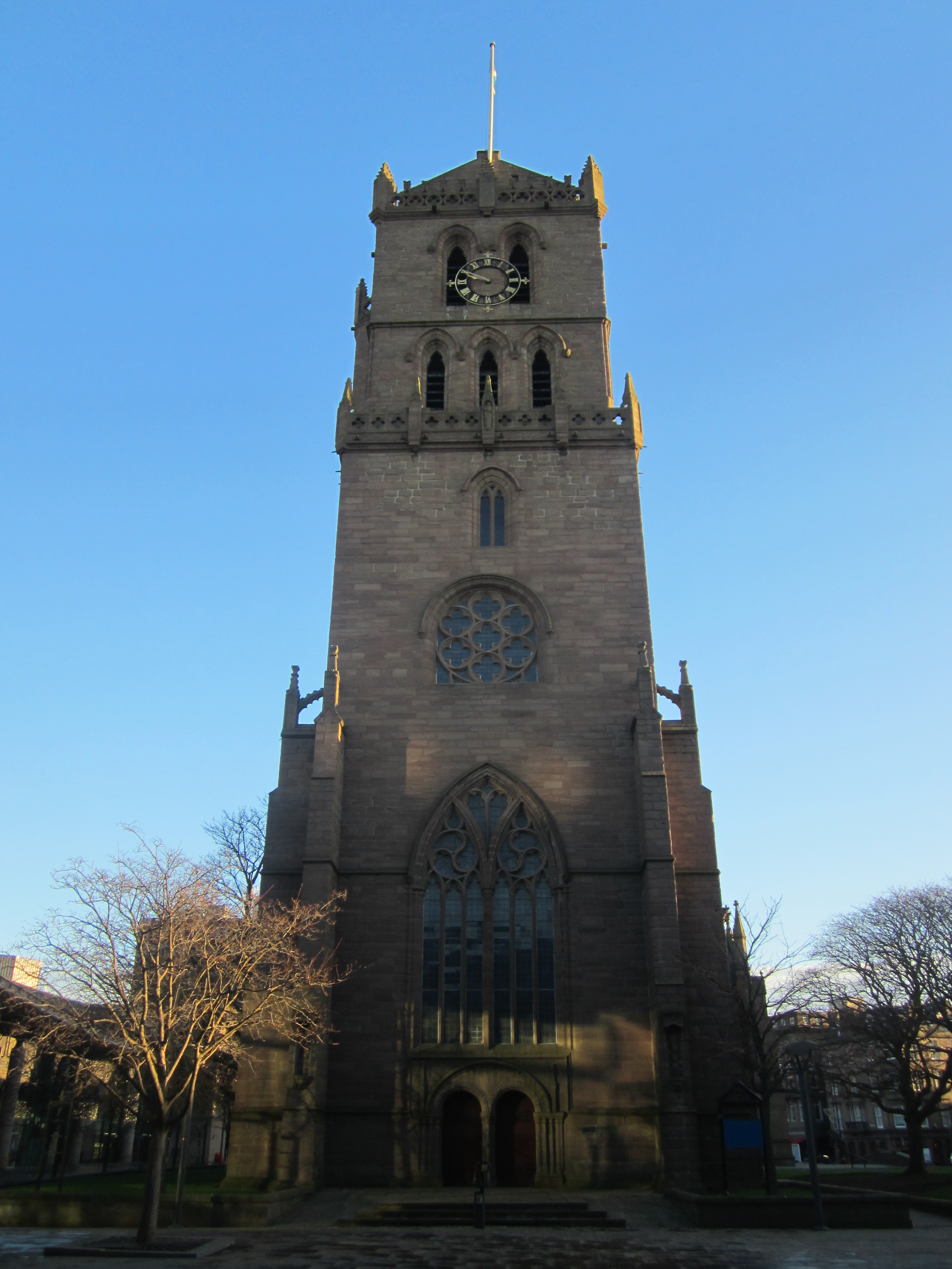 Steeple Church Wikidata has entry Q7605920 with data related to this item.